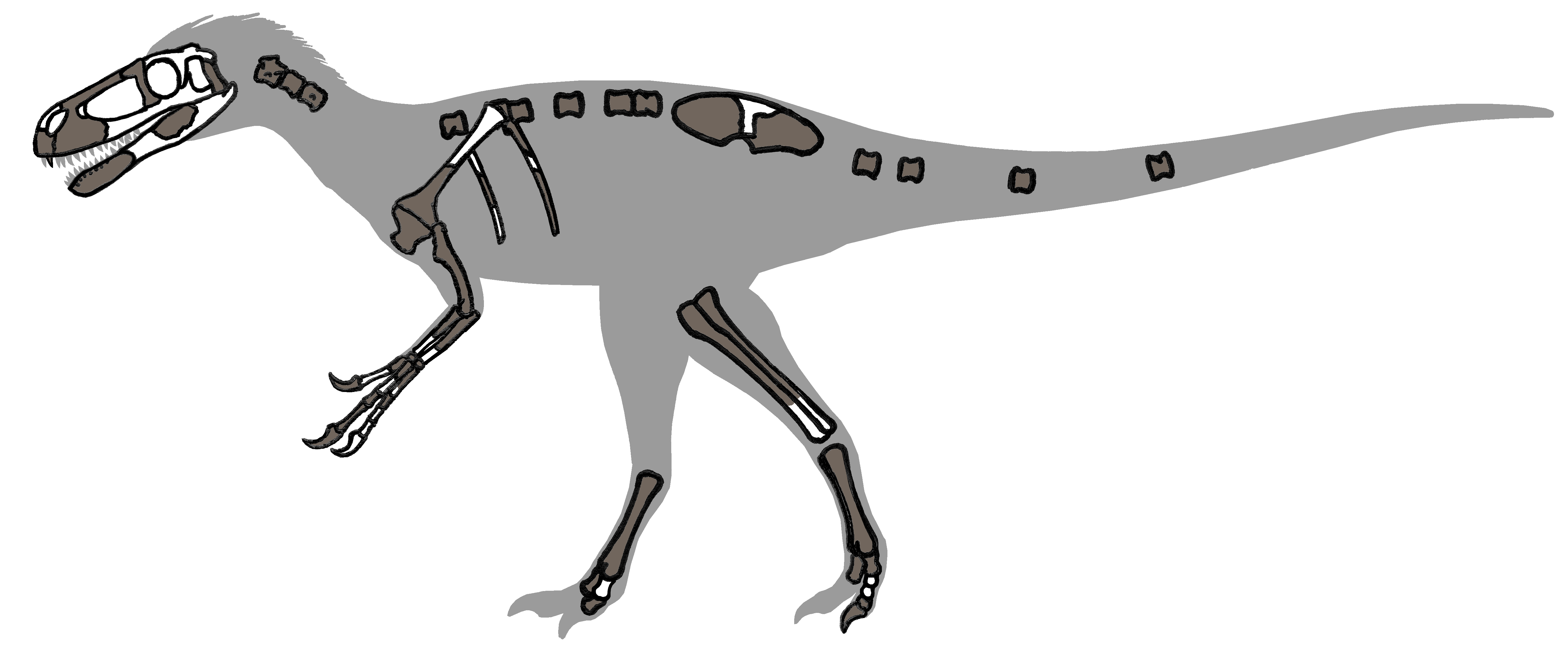 Pieces known from the theropod dinosaur Eotyrannus lengi (the holotype MIWG 1997.550).[1] The holotype are from a subadult, complete to abort 40 %. Sources ↑ Martill D.M., Newbery P et.al. (2001), "A preliminary account of a new tyrannosauroid theropod from the Wessex Formation (Early Cretacous) of Southern England", Cretacous Research 22(2): p.227-242. Skull fragments. Skull fragments (compared with other coelurosaurs (Eotyrannus is H)). Humerus (upper arm bone). Partial skeletal diagram. Skeletal diagram. Skeletal diagram by Scott Hartman. More reading.